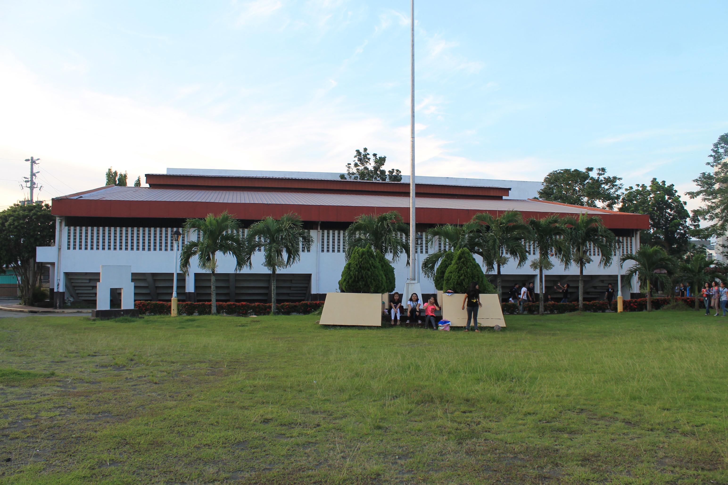 The Polytechnic University of the Philippines Santo Tomas Gymnasium